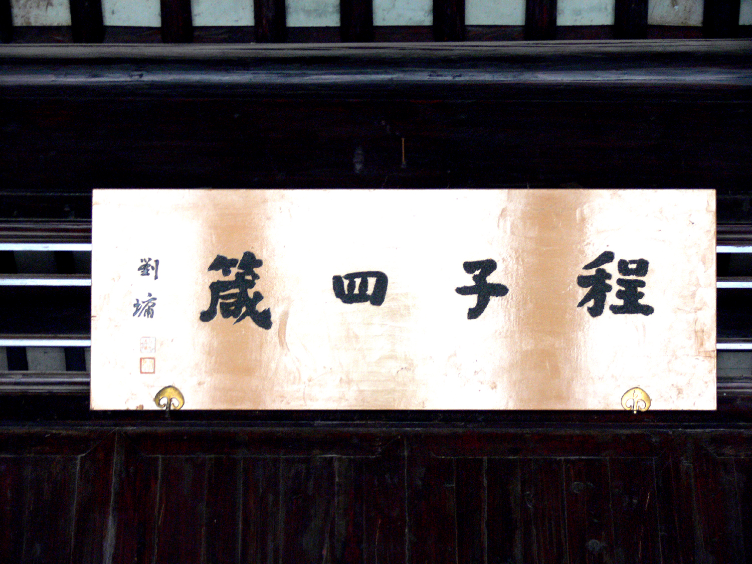 Liu Yong (1719-2805) caligraphed inscription board at Emperor Qianlong's travel residence in Mudu, Suzhou劉墉手書程子四箴匾額